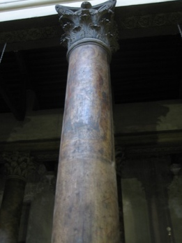 The Church of the Nativity in Bethlehem. Column, 12. cent. / Crkva Rođenja Isusova u Betlehemu. Oslikani stup iz 12. st.